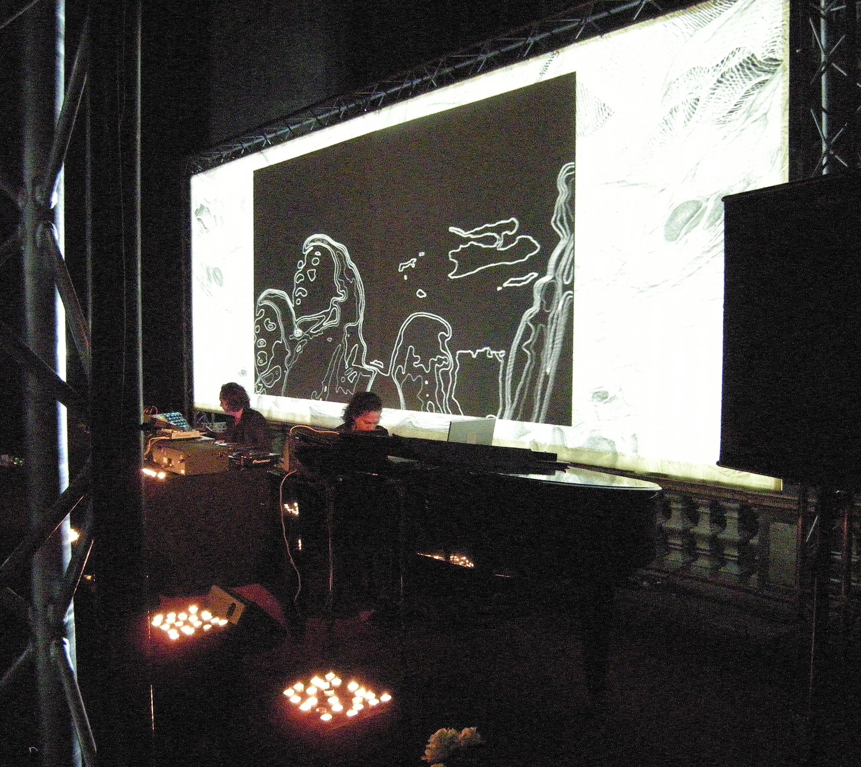 Austrian Band TOSCA performing 'No Hassle' (their new album) at Minoritenkirche, Vienna. Note: Camera time is set on UTC, which is local time -2.